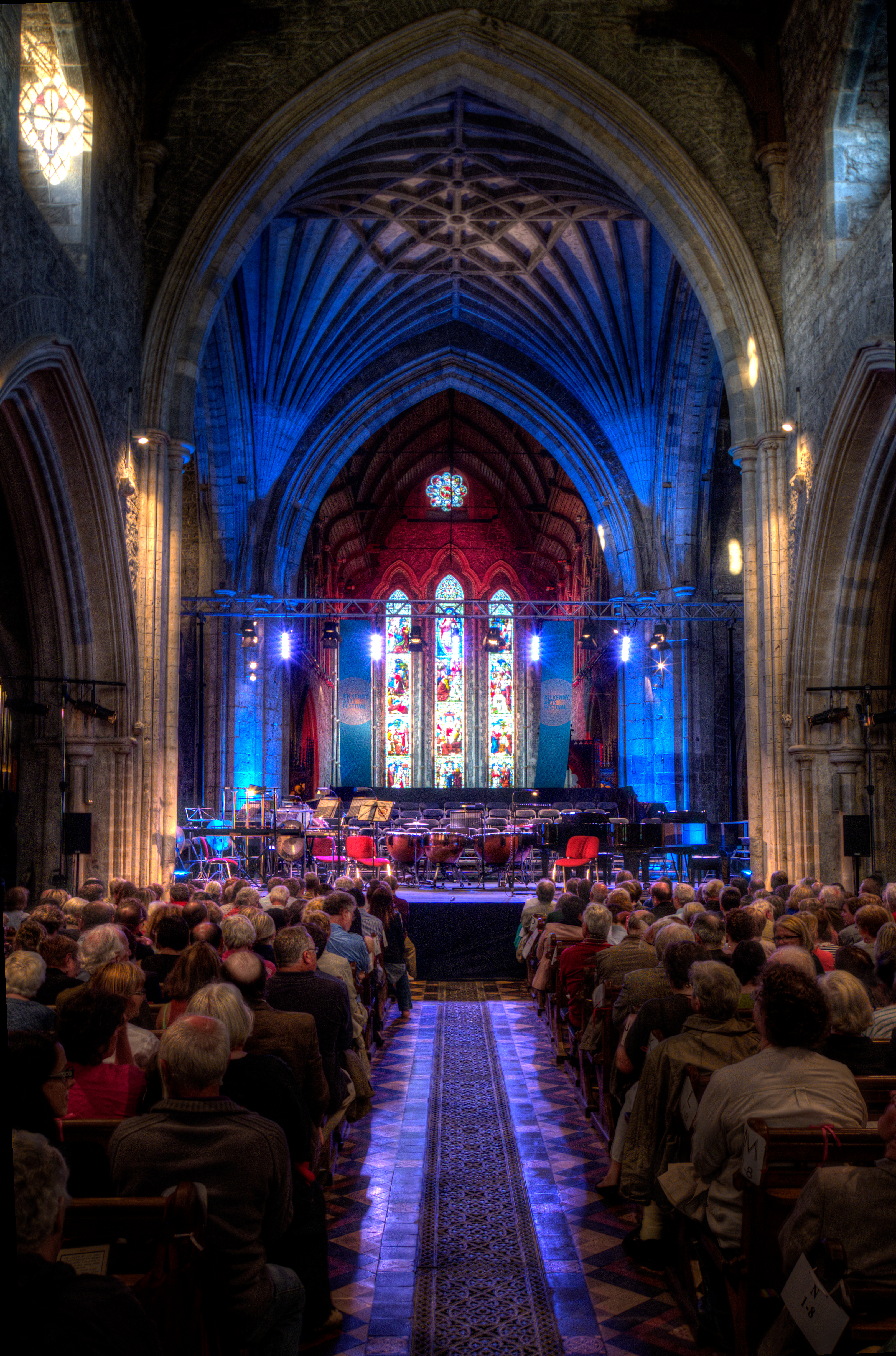 The nave of St Canice's Cathedral, Co. Kilkenny. The cathedral is often used as part of the Kilkenny Arts Festival; this photo was taken before a performance of the Carmena Burana in 2013.